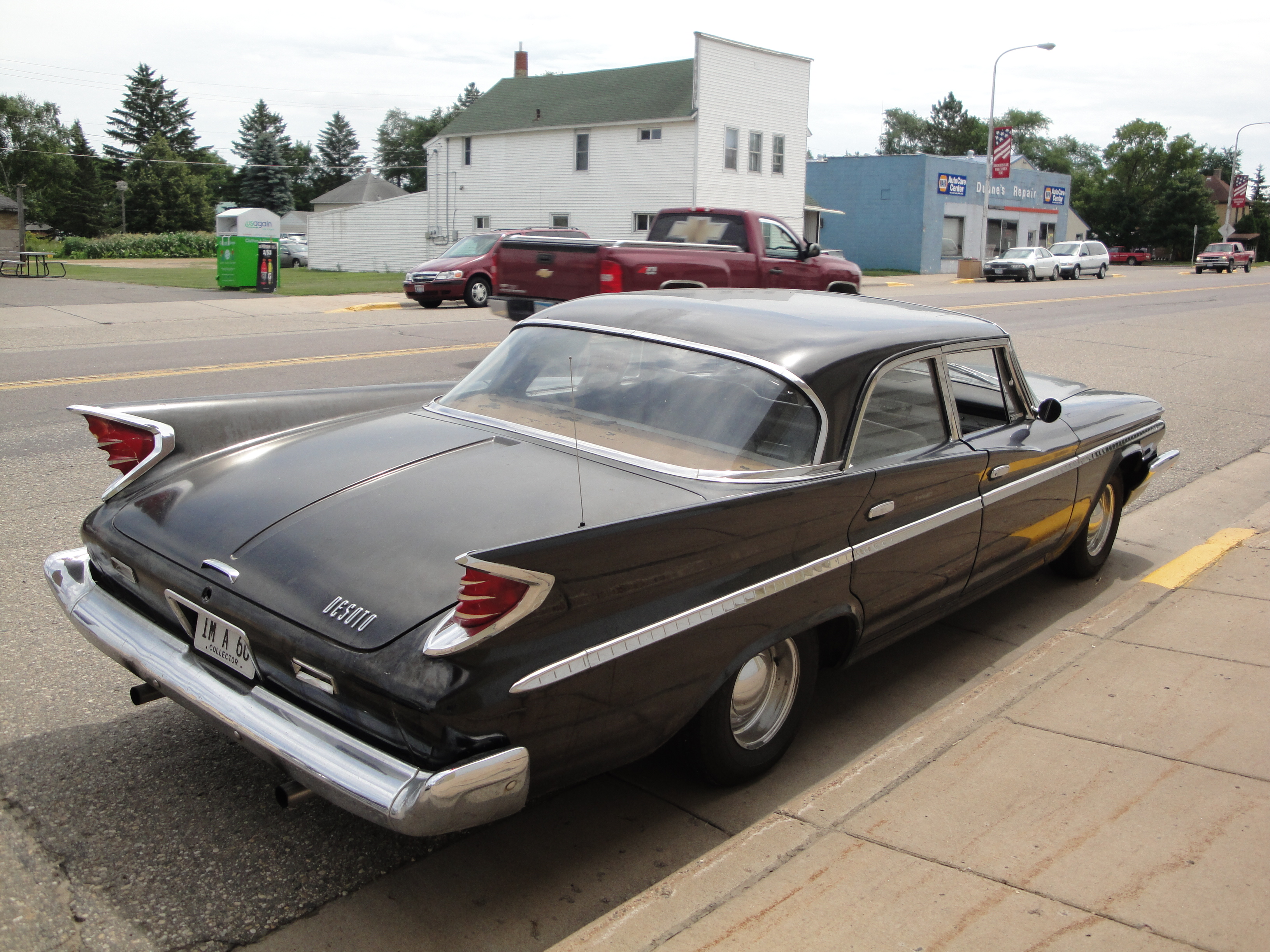 I travelled Up North to my family's cabin to meet a friend that was visiting from California. I spotted some cars along the way and took some shots.